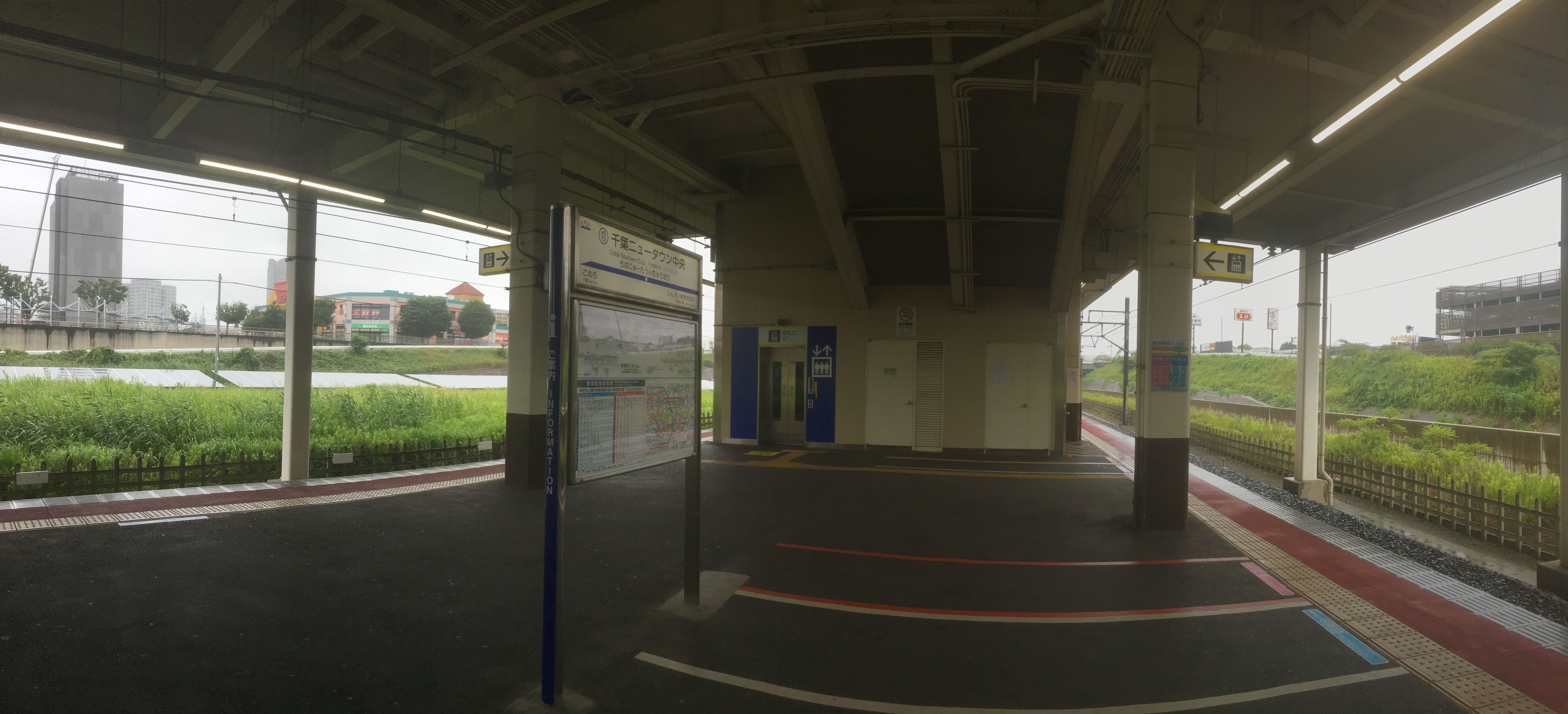 千葉ニュータウン中央駅のホーム (Chiba newtown chūō Station platforms)